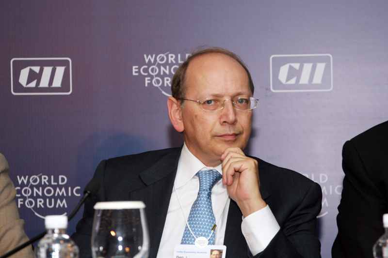 Ben Verwaayen, Dutch businessman and CEO of BT at this time (12-2007), attending the 2007 India Economic Summit.